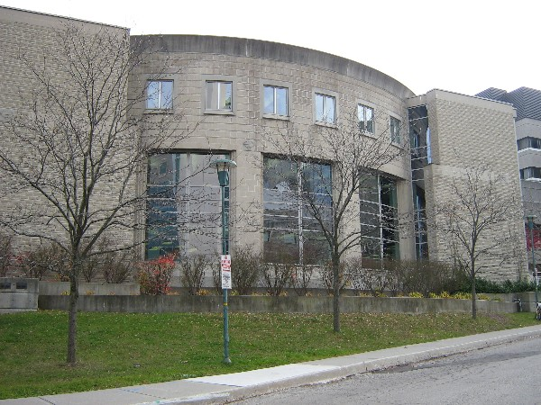 Allyn and Betty Taylor Library at the University of Western Ontario.